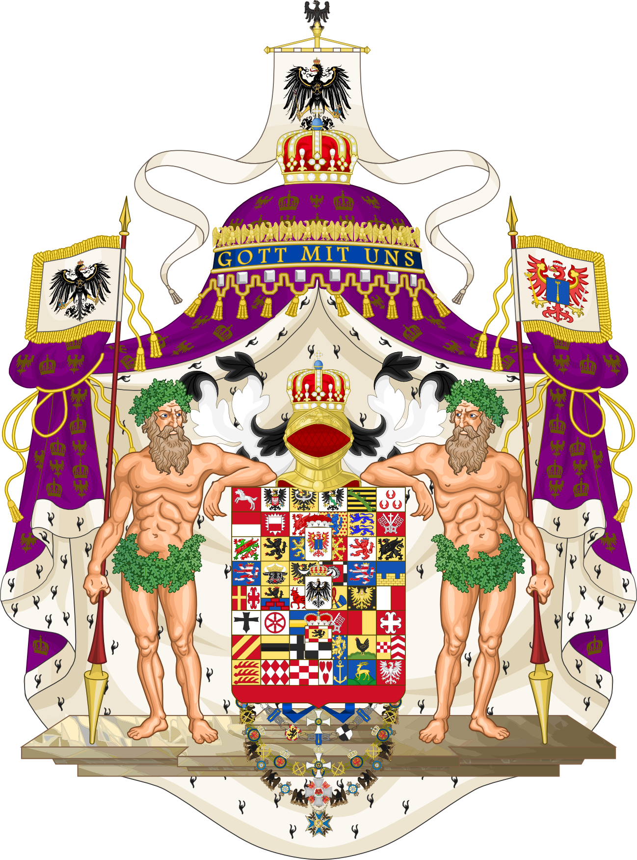 The greater Prussian arms of 1873 according to